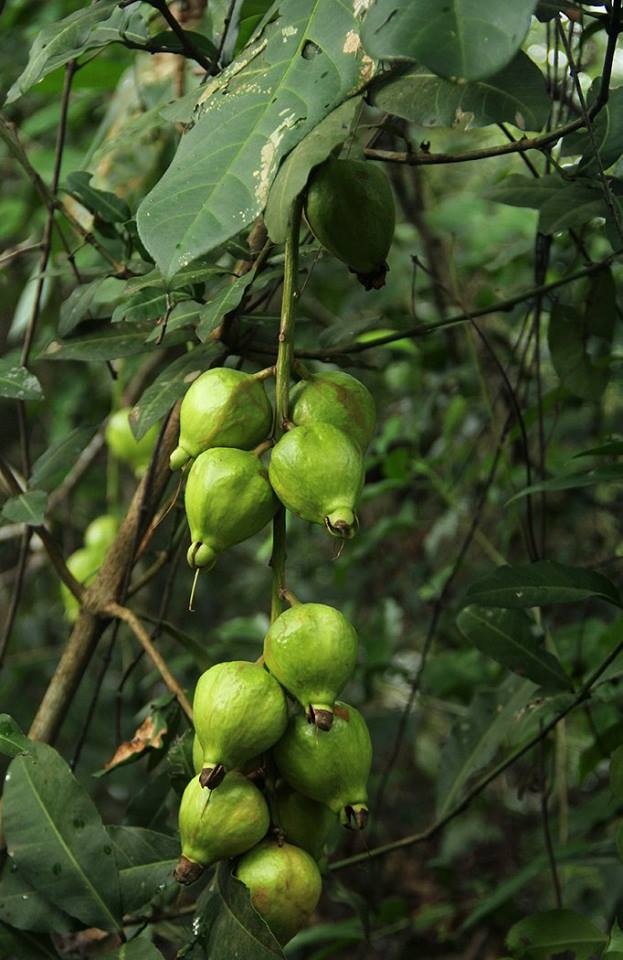 Barringtonia racemosa (L.) Spreng. - Gorongosa Reserve, Mozambique